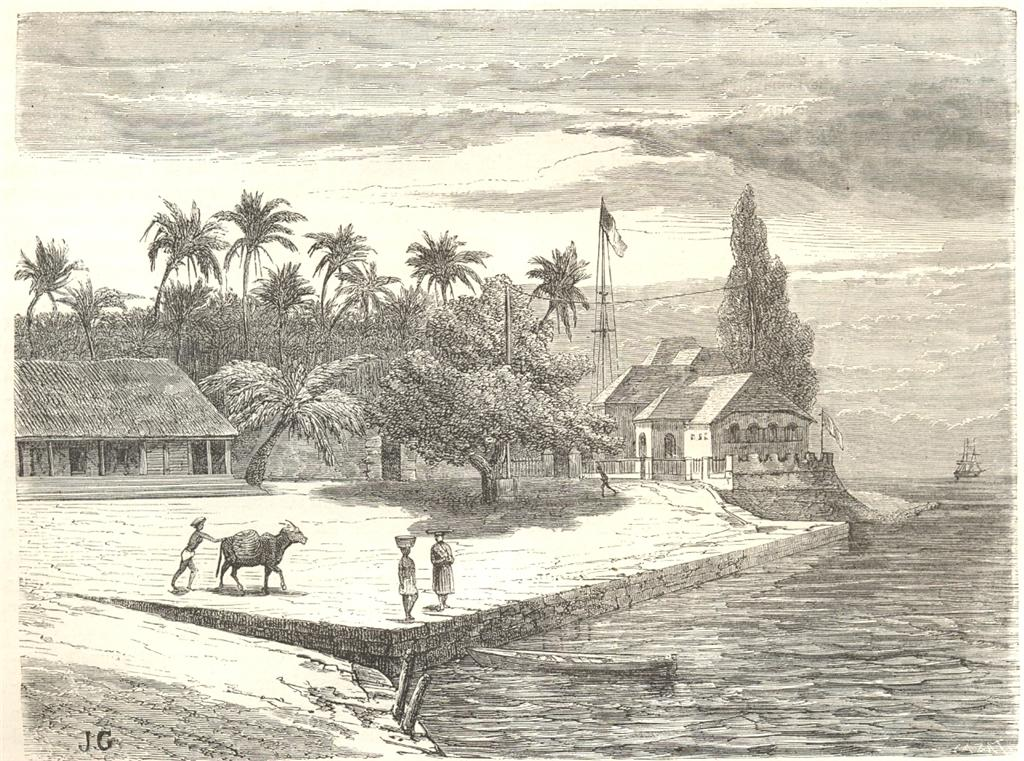 1863 print titled Une vue du quai de Mahé sur la côte de Malabar (A view of the wharf of Mahé on the Malabar Coast). From an article titled Voyage au Malabar published in the French bi-yearly magazine Le Tour du Monde in 1863. The author points out that there is no public building in the small town of 3,000 inhabitants, and that the residence of the French governor (most likely the building on the right on the print), is rented from a rich inhabitant. Mahé was one of the five settlements of French India and the only one on the west coast of India.